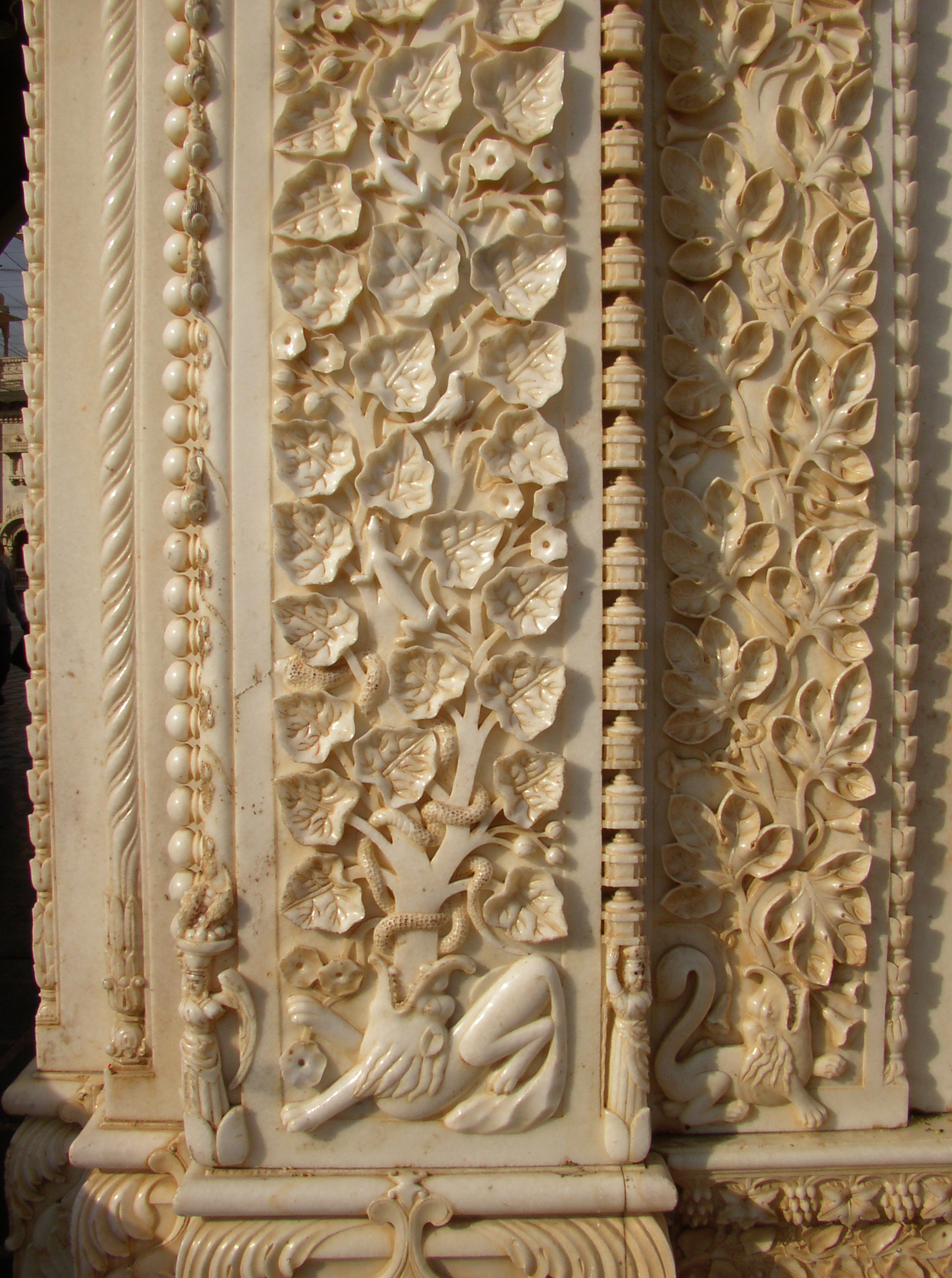 Detail of Karni Mata temple in Deshnoke (in the Bikaner district) in Rajasthan, India